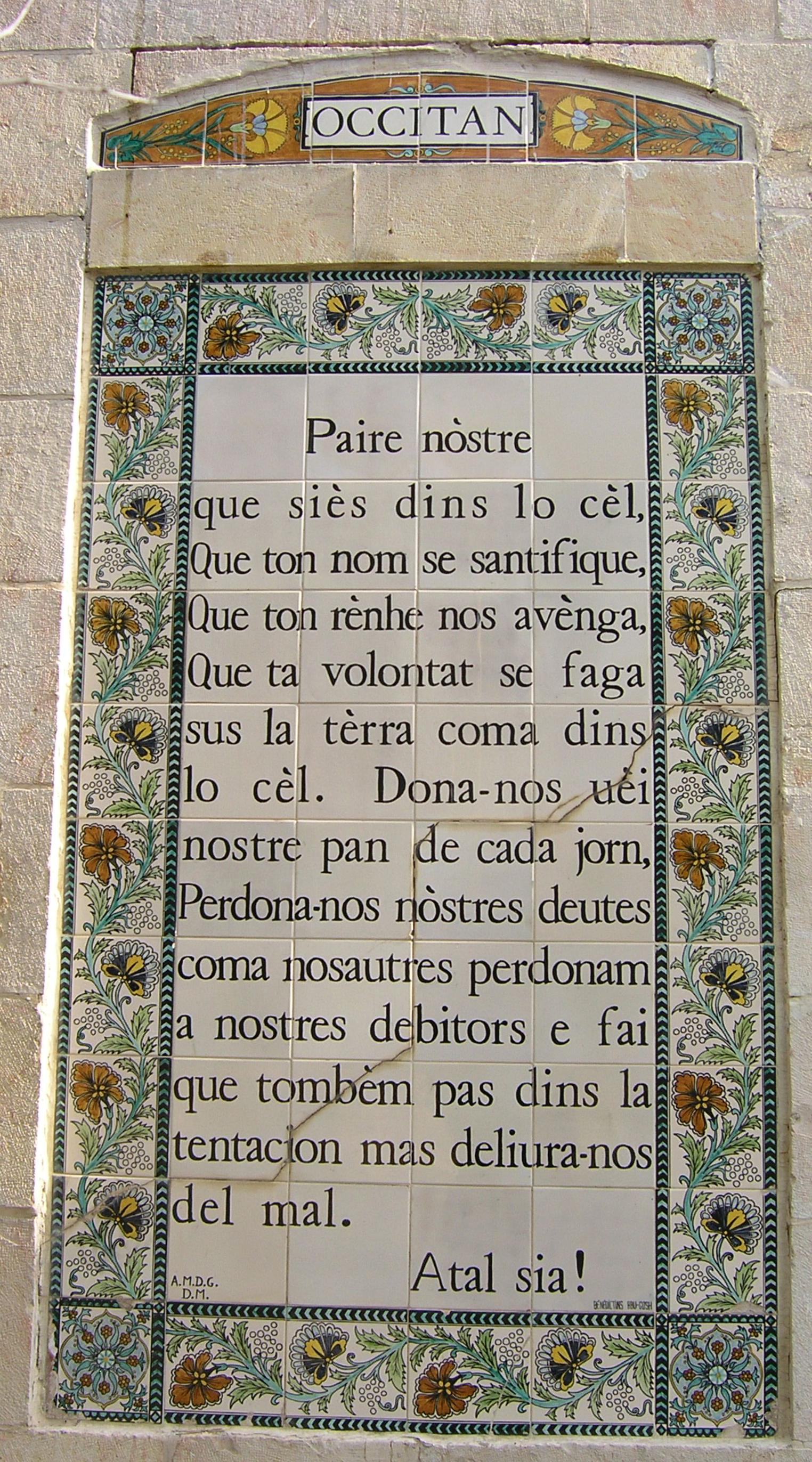 Jerusalem (Israel): Lord's Prayer in occitan language, Church of the Pater Noster